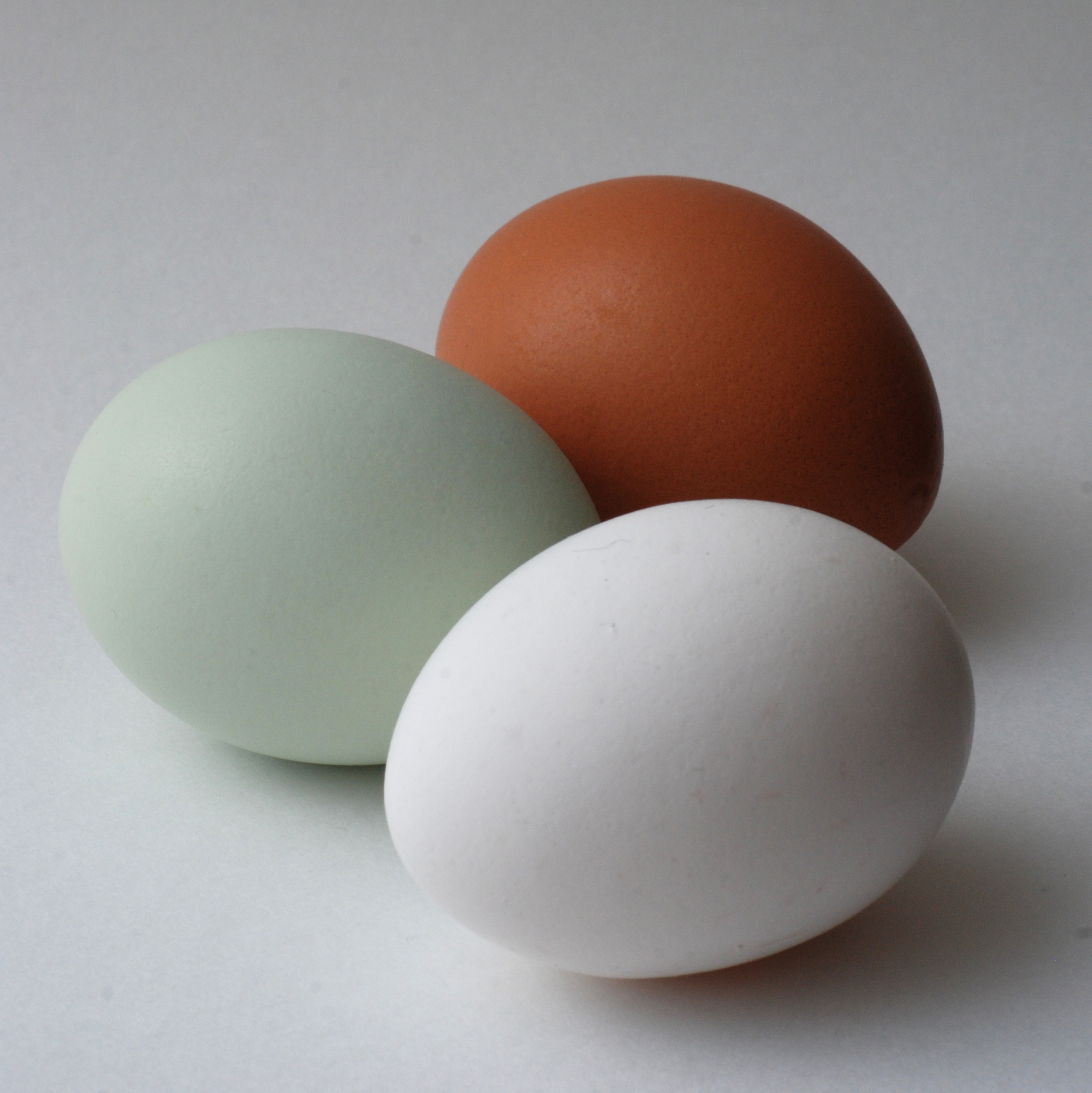 Photograph of Araucana egg (blue-green color) with brown and white eggs for comparison.